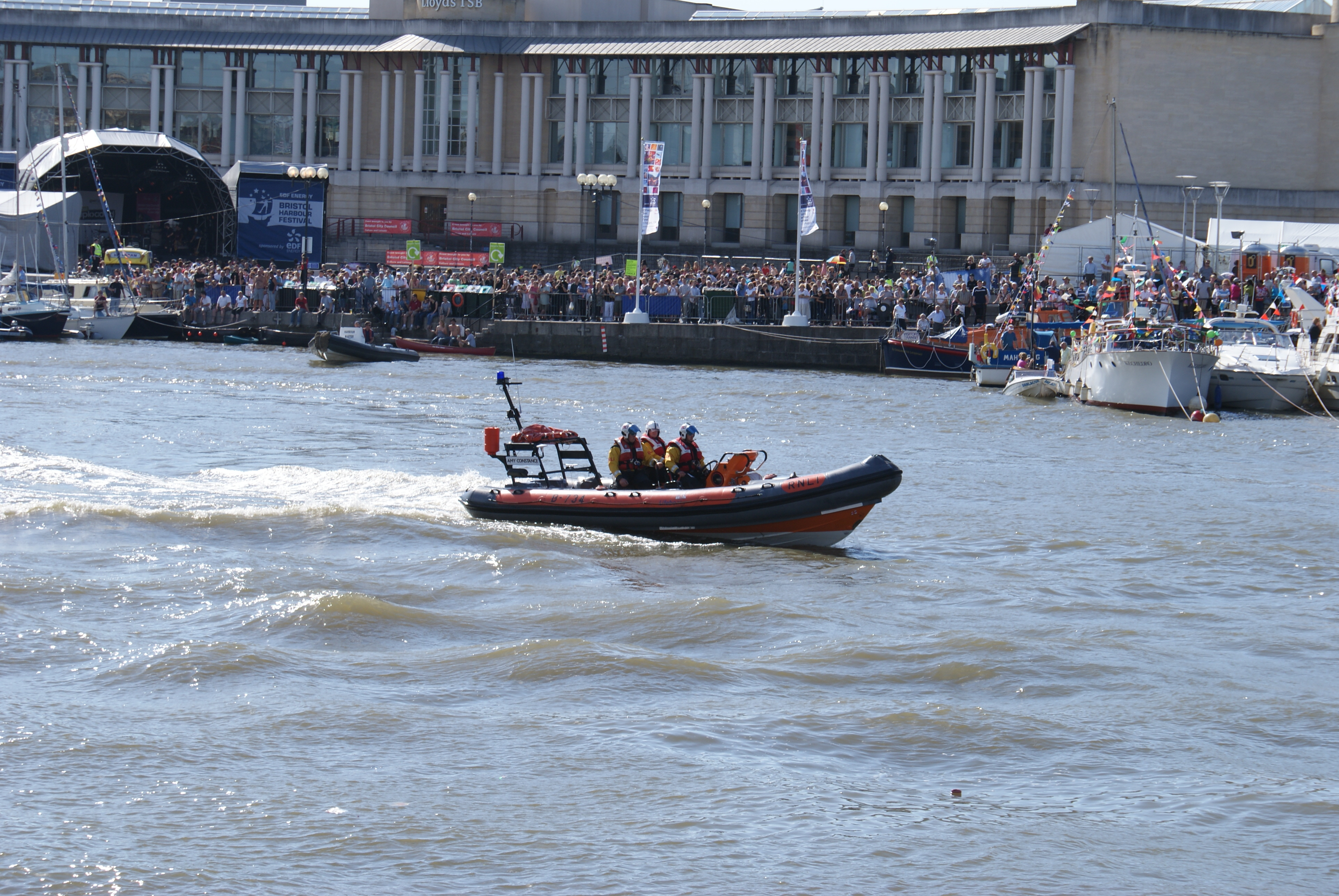 RNLI relief inshore lifeboat B734 Amy Constance demonstrated at the Bristol Harbour Festival in 2008. A concert is taking place behind.